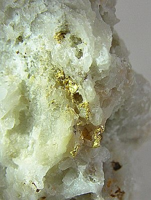 Gold, Quartz Locality: Navachab Gold Mine, Karibib District, Erongo Region, Namibia (Locality at ) Size: 3.9 x 3.8 x 2.4 cm. There is admittedly not a LOT of gold here, but it is not just a few flecks either, and in any case this is more of an interesting locality piece (Navachab) that you do not see around much. The area of gold you see is about 1 cm in length.